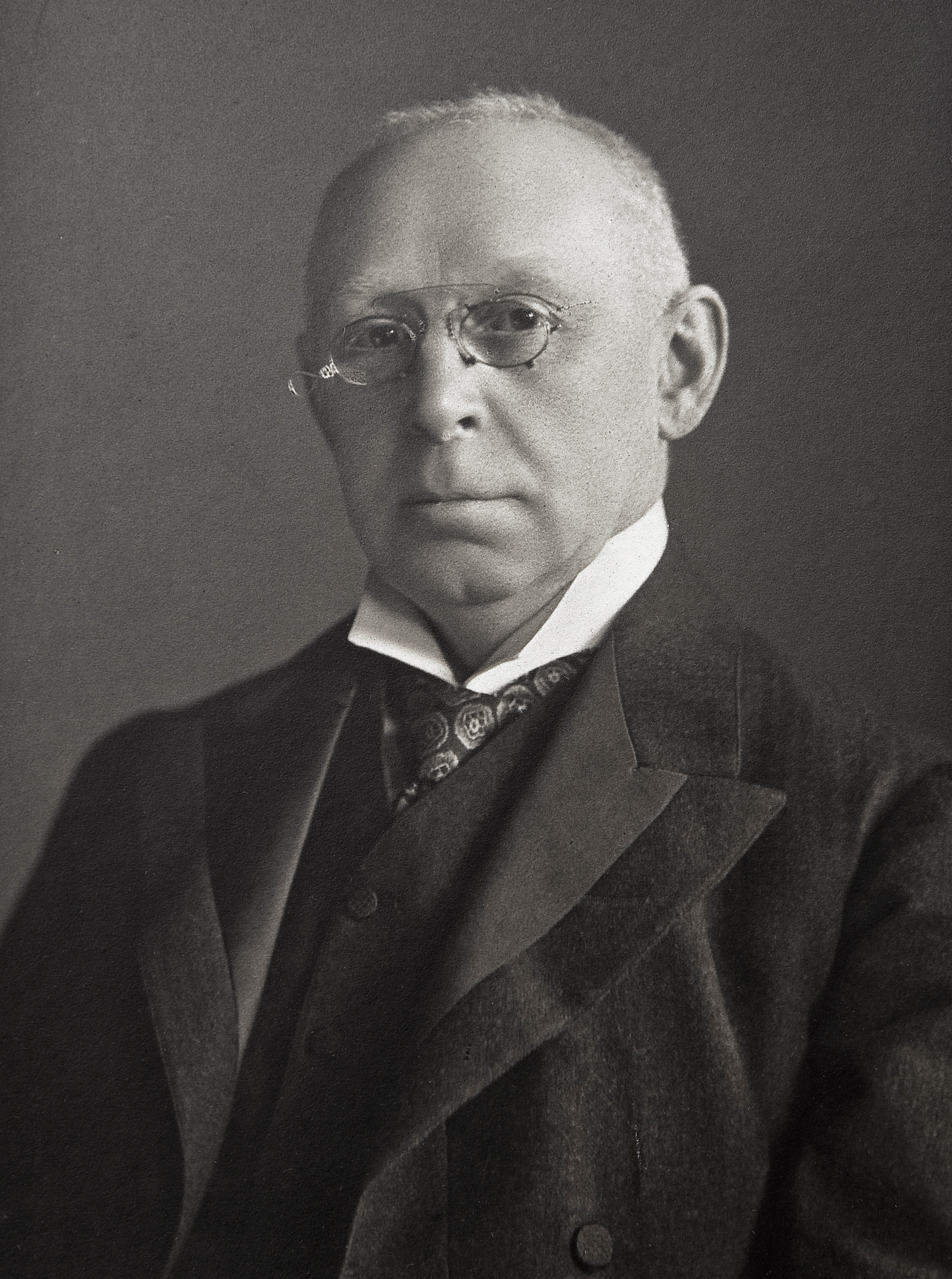 Photographic portrait of Sir John Storey Barwick (1838 – 1915)